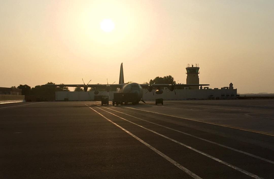 United Arab Emirates Air force (UAEAF) Lockheed C-130H-30 Hercules stationed in Al Minhad Airbase.